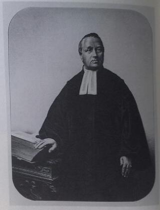 Picture of the Dutch referent Leendert Schouten, founder of the Biblical Museum in Amsterdam